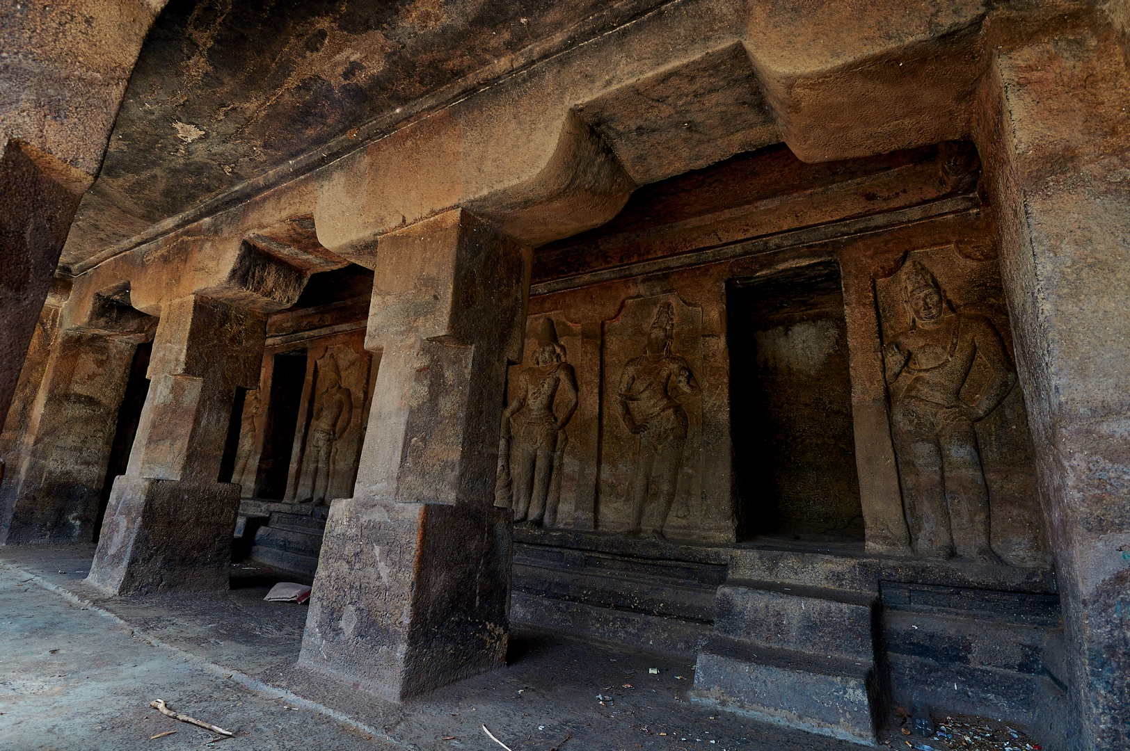 Inside View,Sculptures of Rockcutshrine-Kuranganilmuttam-Tiruvannamalai